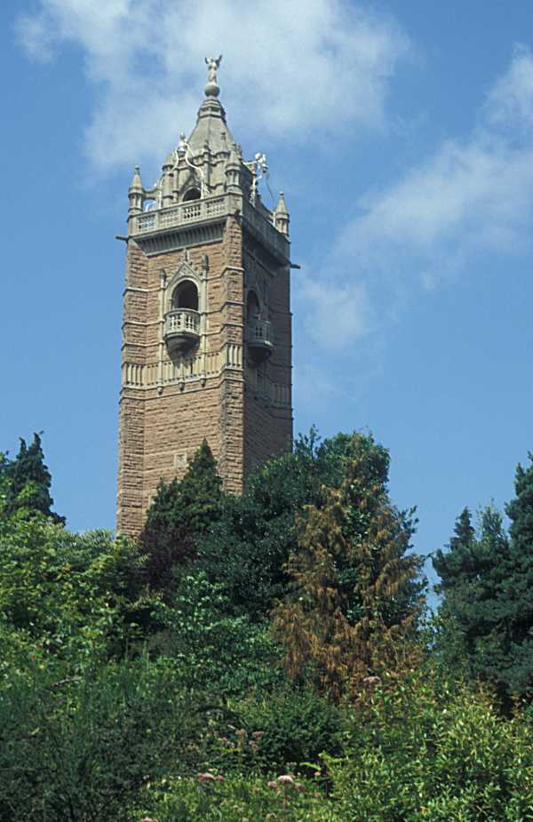 The Cabot Tower, celebrating John Cabot, in Bristol.